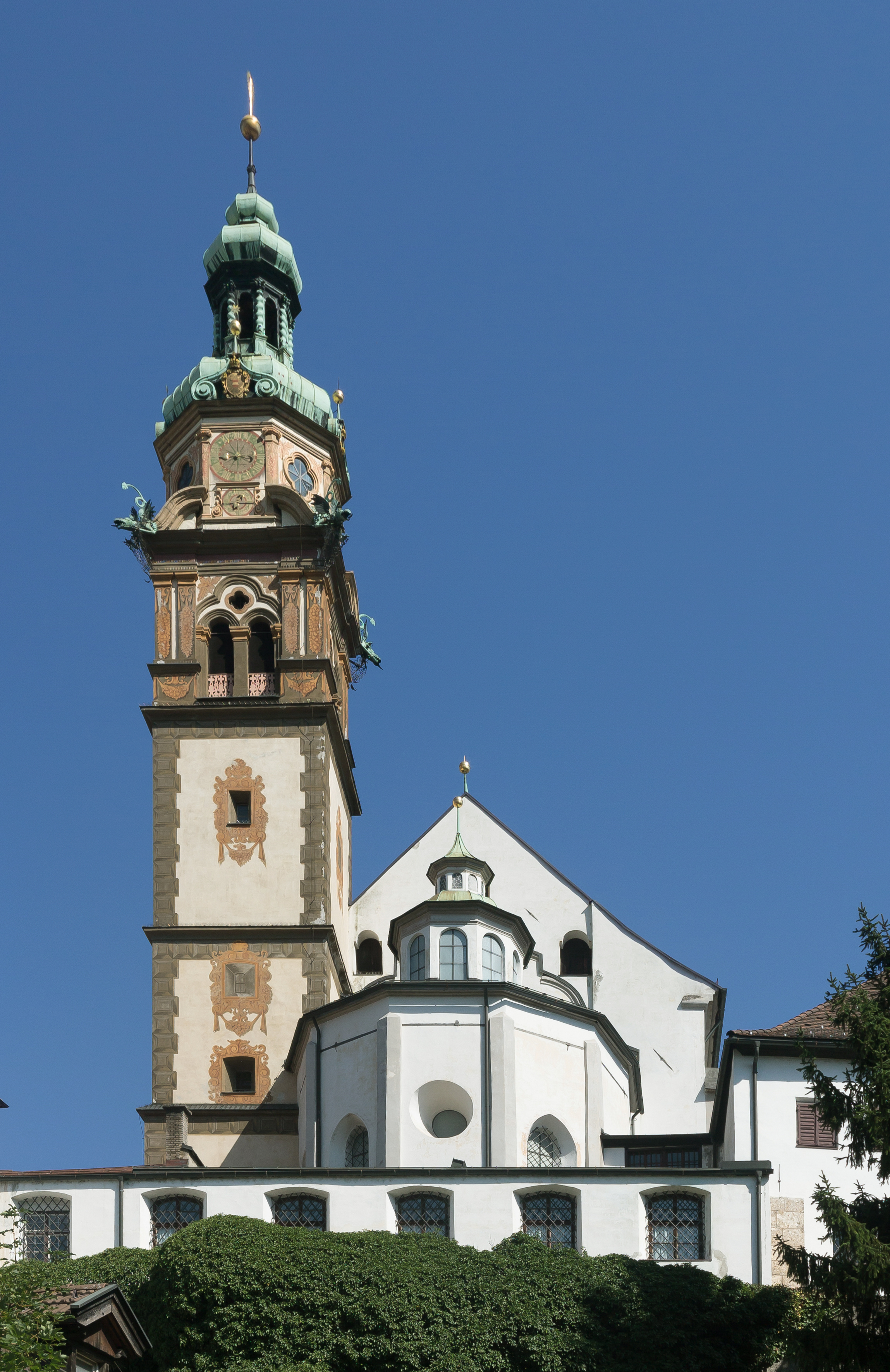 Hall in Tirol, basilica: Herz Jesu Basilika